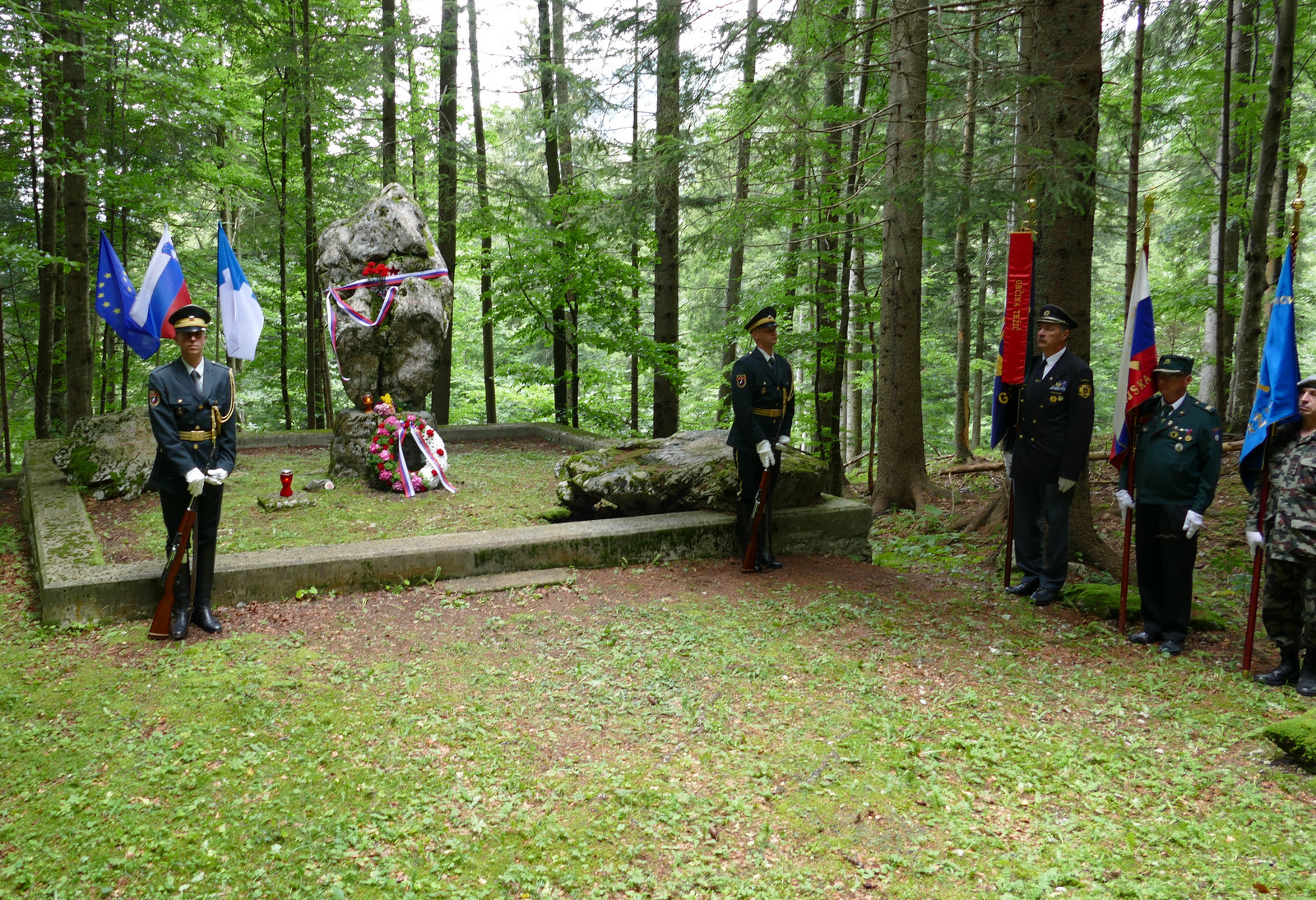 Spomenik padlim Storžiškega bataljona